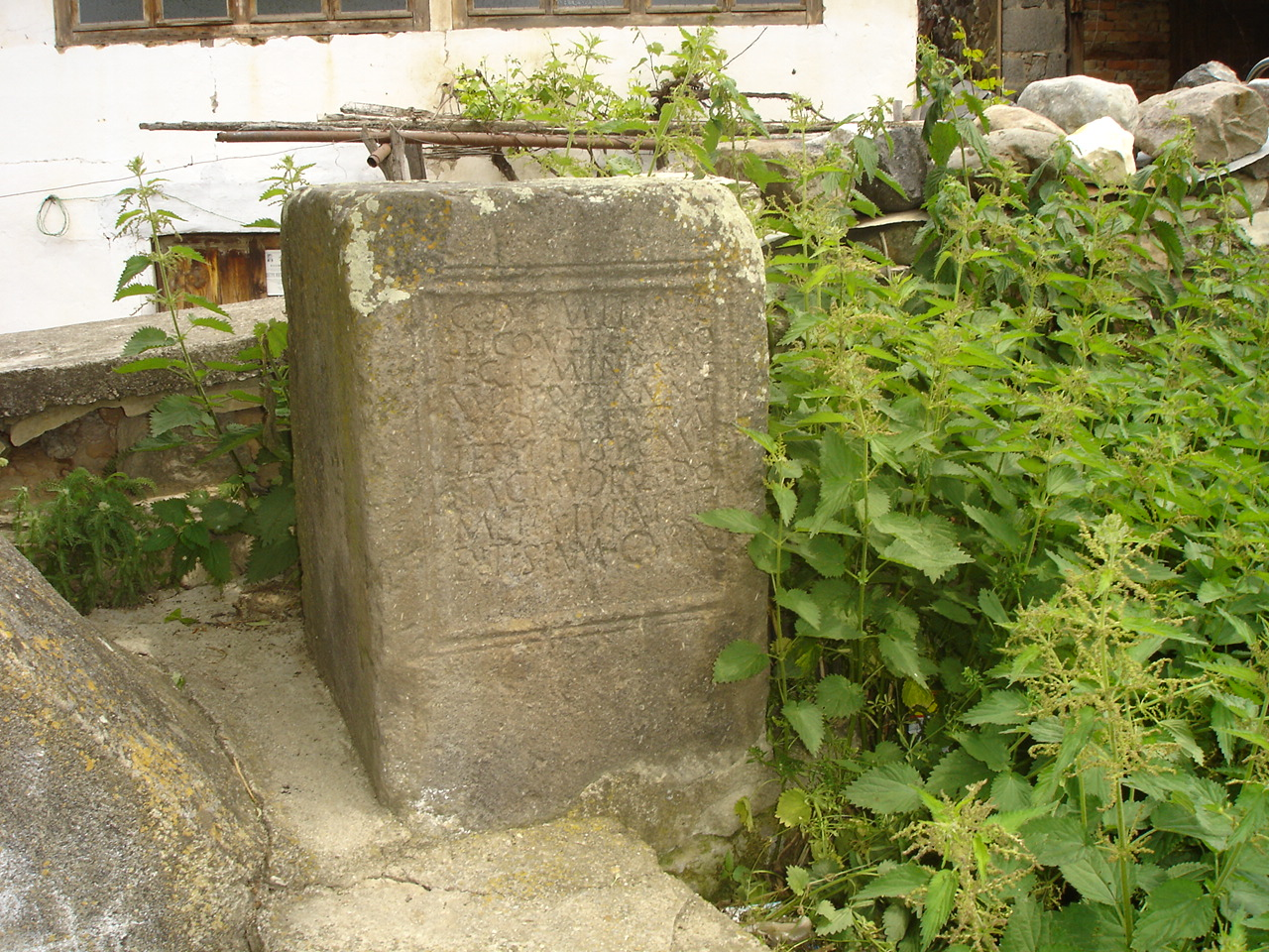 Stone with roman letters in village of Vitolishte in Mariovo region, Macedonia